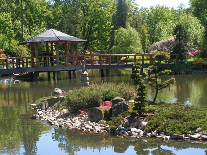 Japanese Garden in Wrocław, Poland.